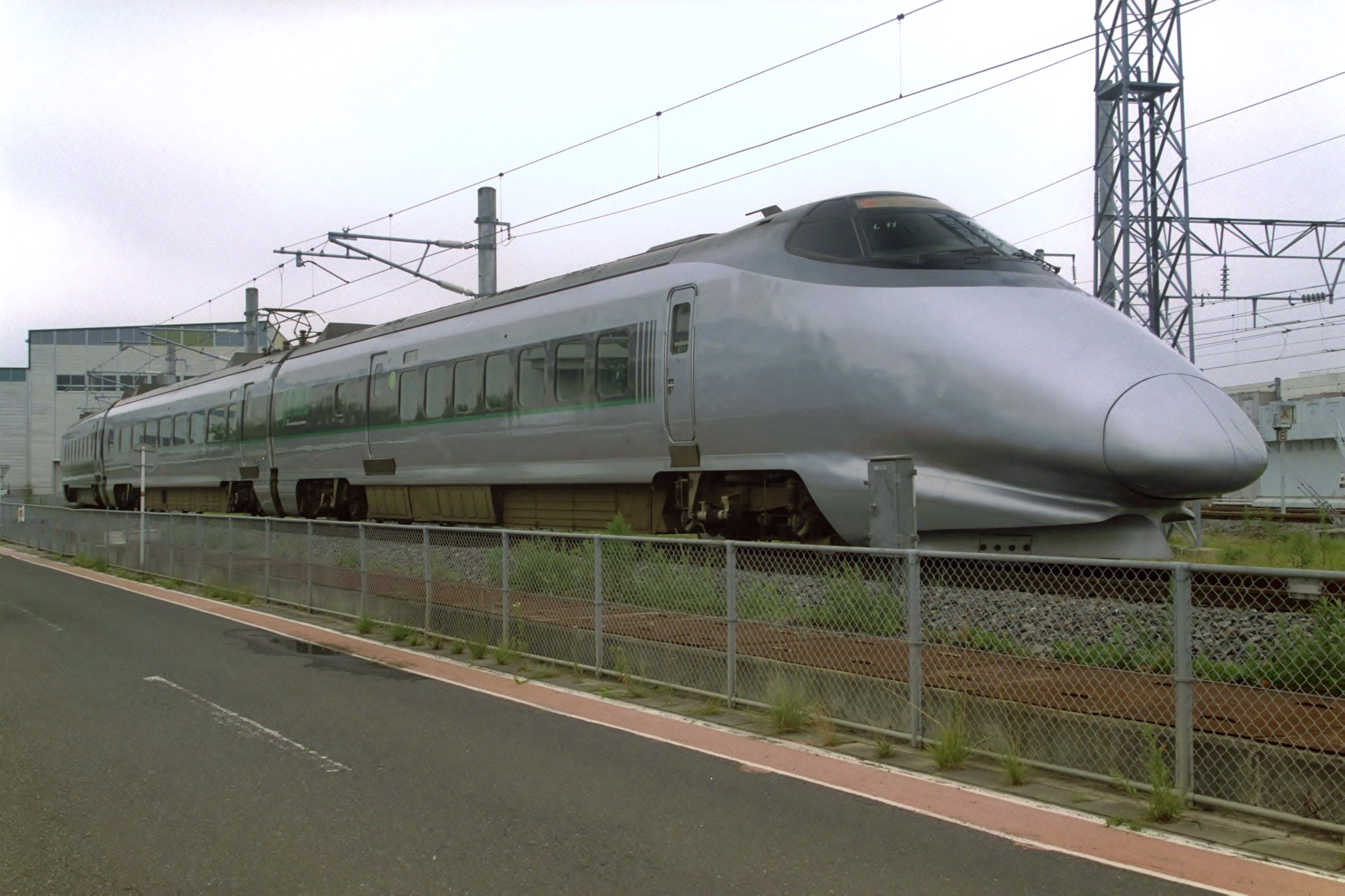 JR East 400 series shinkansen set L11 at Shinkansen General Rolling Stock Center